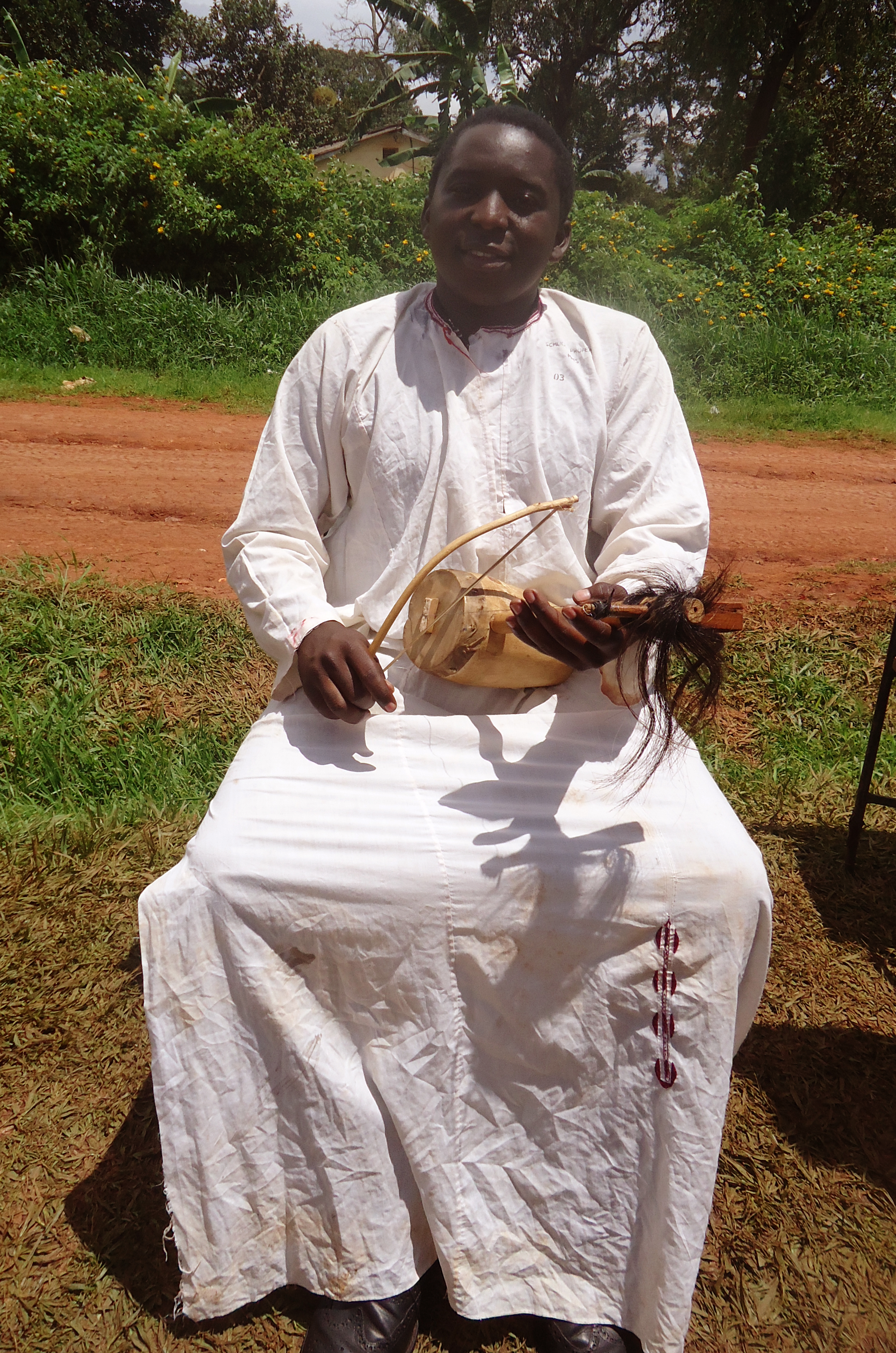 This is an image of Cultural Fashion or Adornment from Uganda